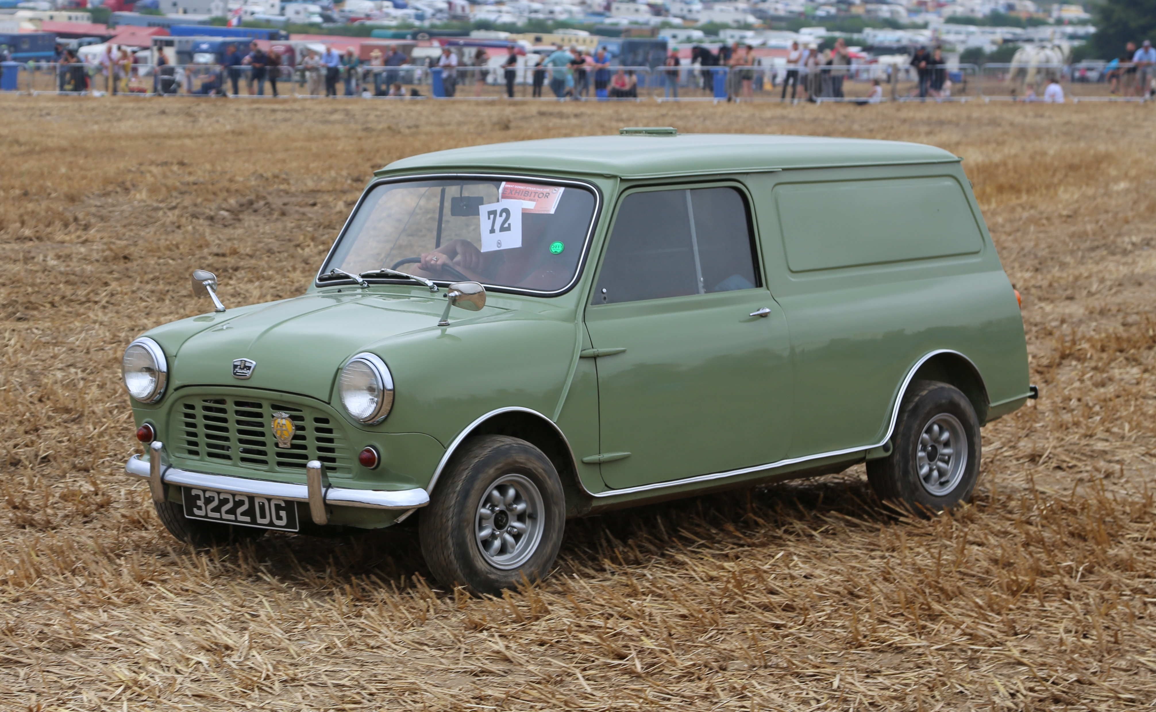 photo of an 1963 austin mini van